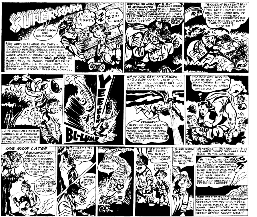 This is a comic strip written by Jerry Siegel and Ben Bryan. Siegel and Bryan were, at the time, soldiers in the US Army, and they produced this strip for the military publication Midpacifican.